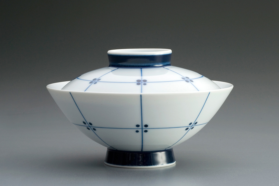 Some Goshi series / Ricebowl (1962), Masahiro Mori (ceramic designer) designed